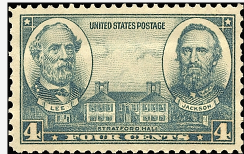 Scan of United States 4¢ postage stamp of 1937 (Scott 788) depicting Genl. Robert E. Lee, Genl. "Stonewall" Jackson and Lee's ancestral home of Stratford_Hall_(plantation) in Virginia.